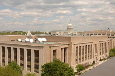 Washington DC: Voice of America Headquarters, with the US Capitol in the distance. Building (the Cohen Federal Building) is listed on the National Register.